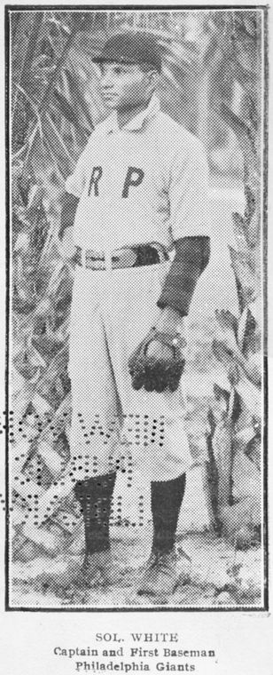 Negro league player Sol White with the Philadelphia Giants. Image courtesy of the New York Public Library . Image originally from Sol White's official base ball guide; edited by H. Walter Schlichter.